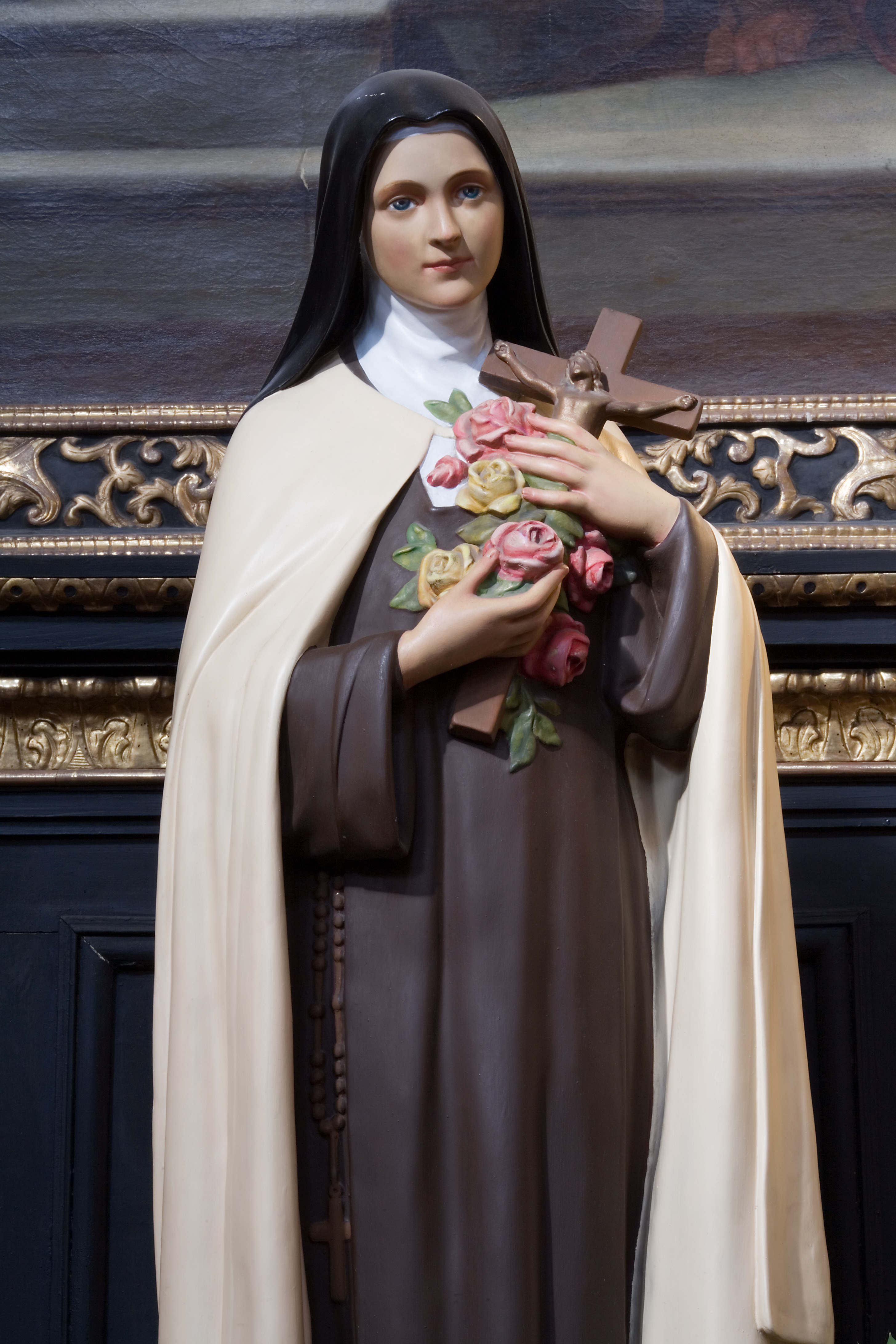 Wooden enameled sculpture of Saint Thérèse of Lisieux in the Church of the Infant Jesus of Prague